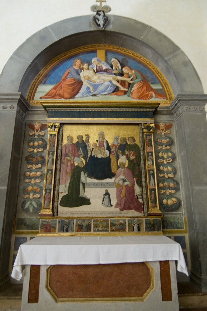 see above